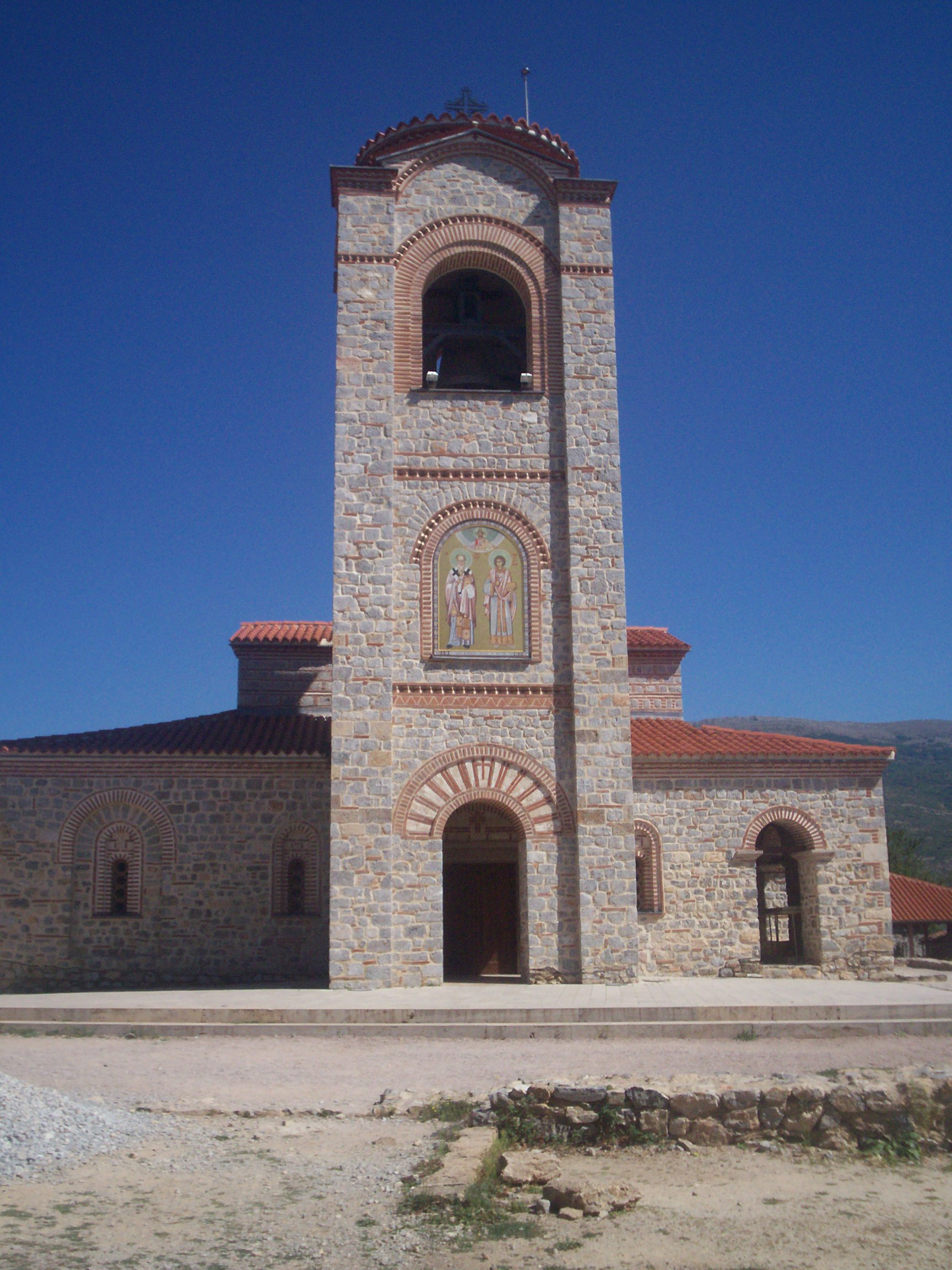 The Bell tower of Saint Panteleimon monastery in Ohrid, Republic of Macedonia.